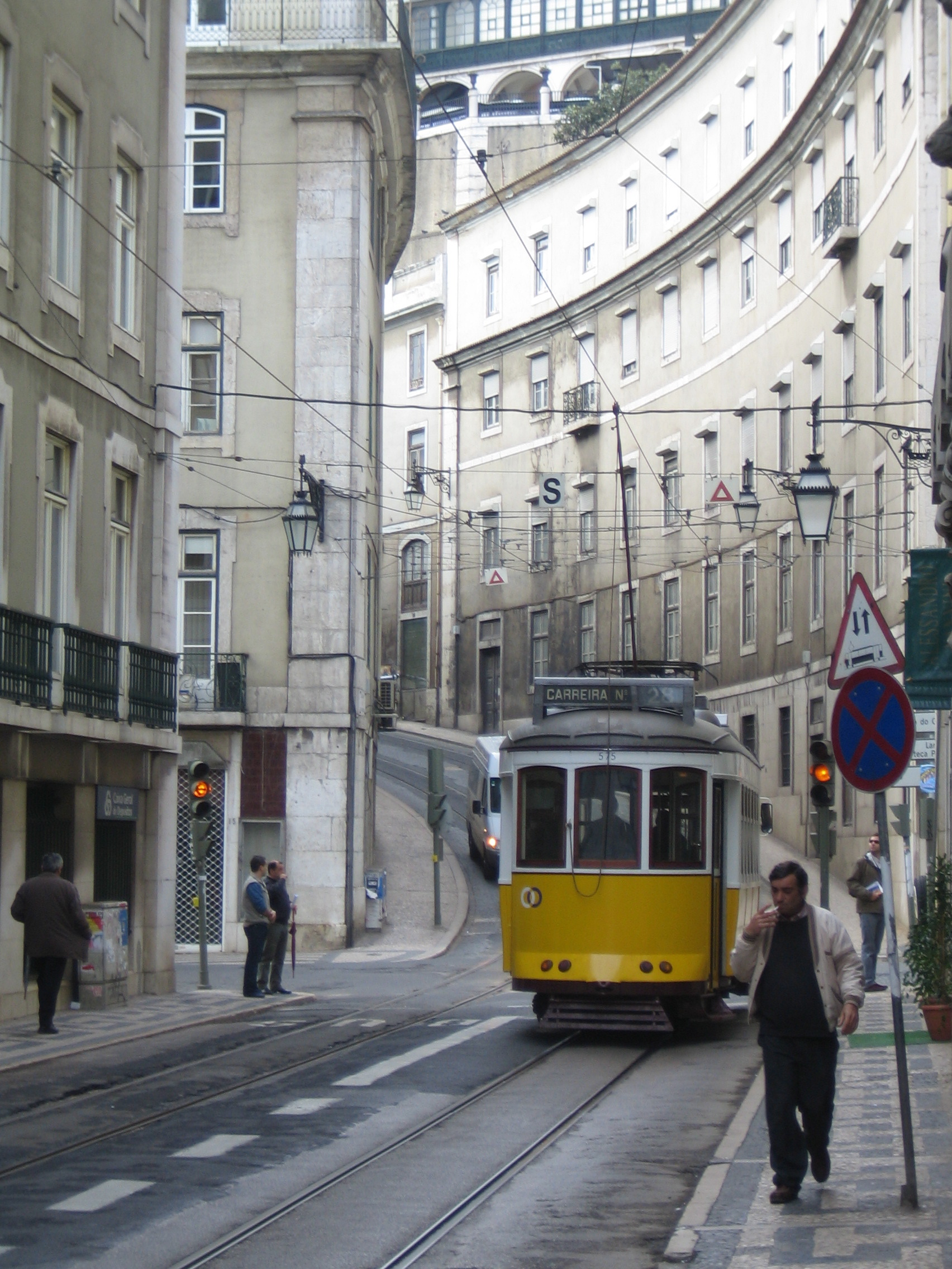 «Lisboa cable car #28»